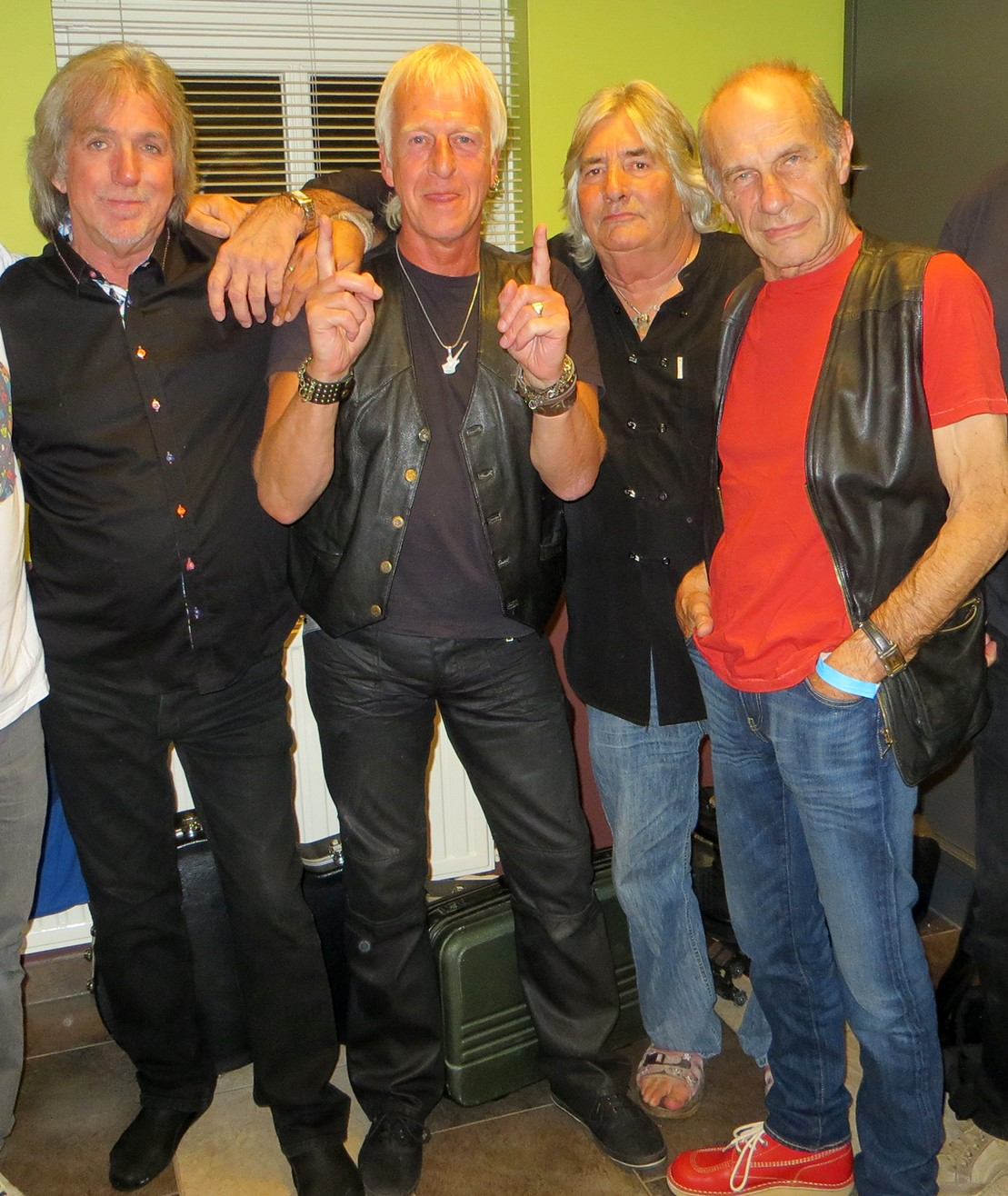 Troggs